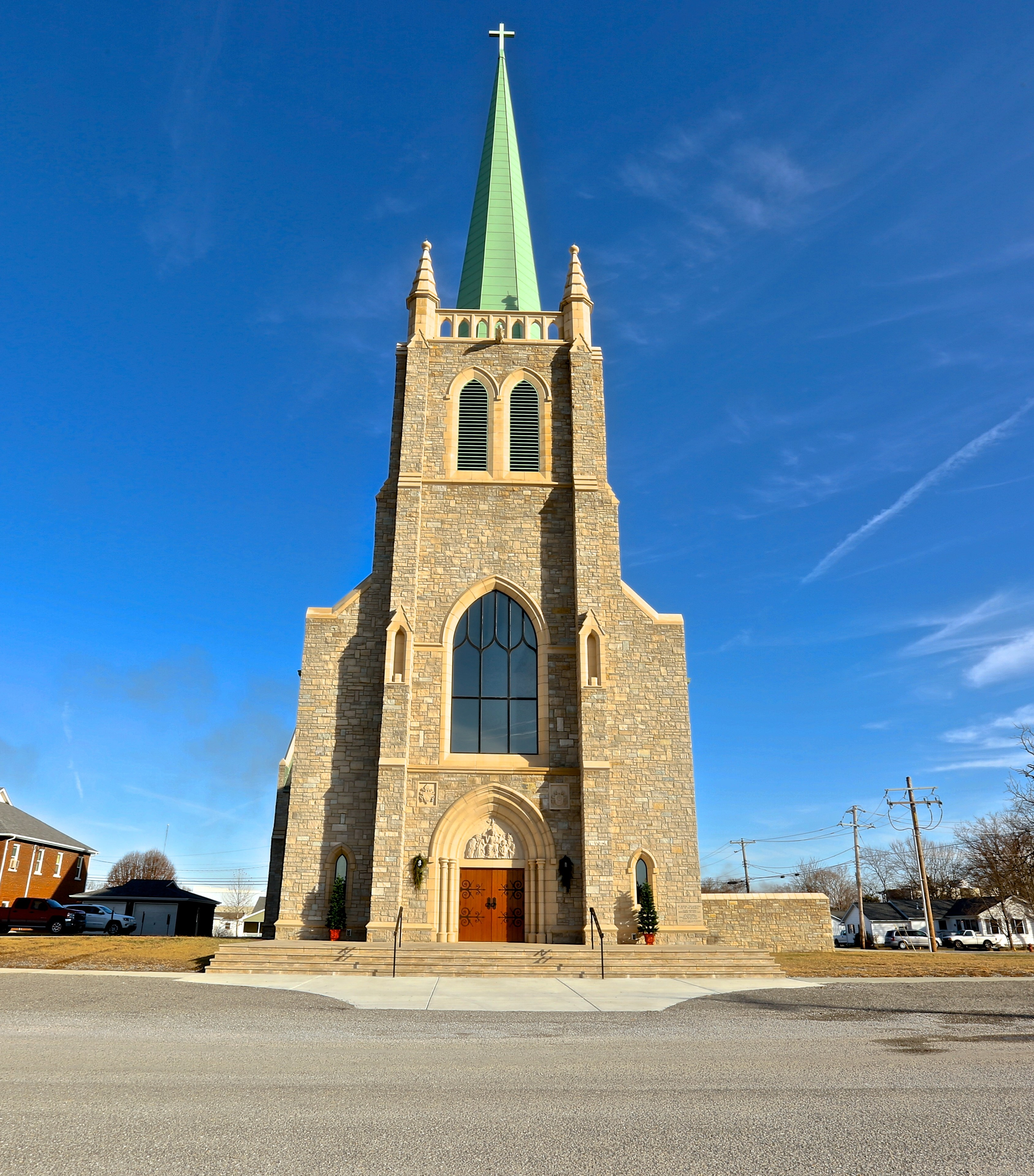 st kateri